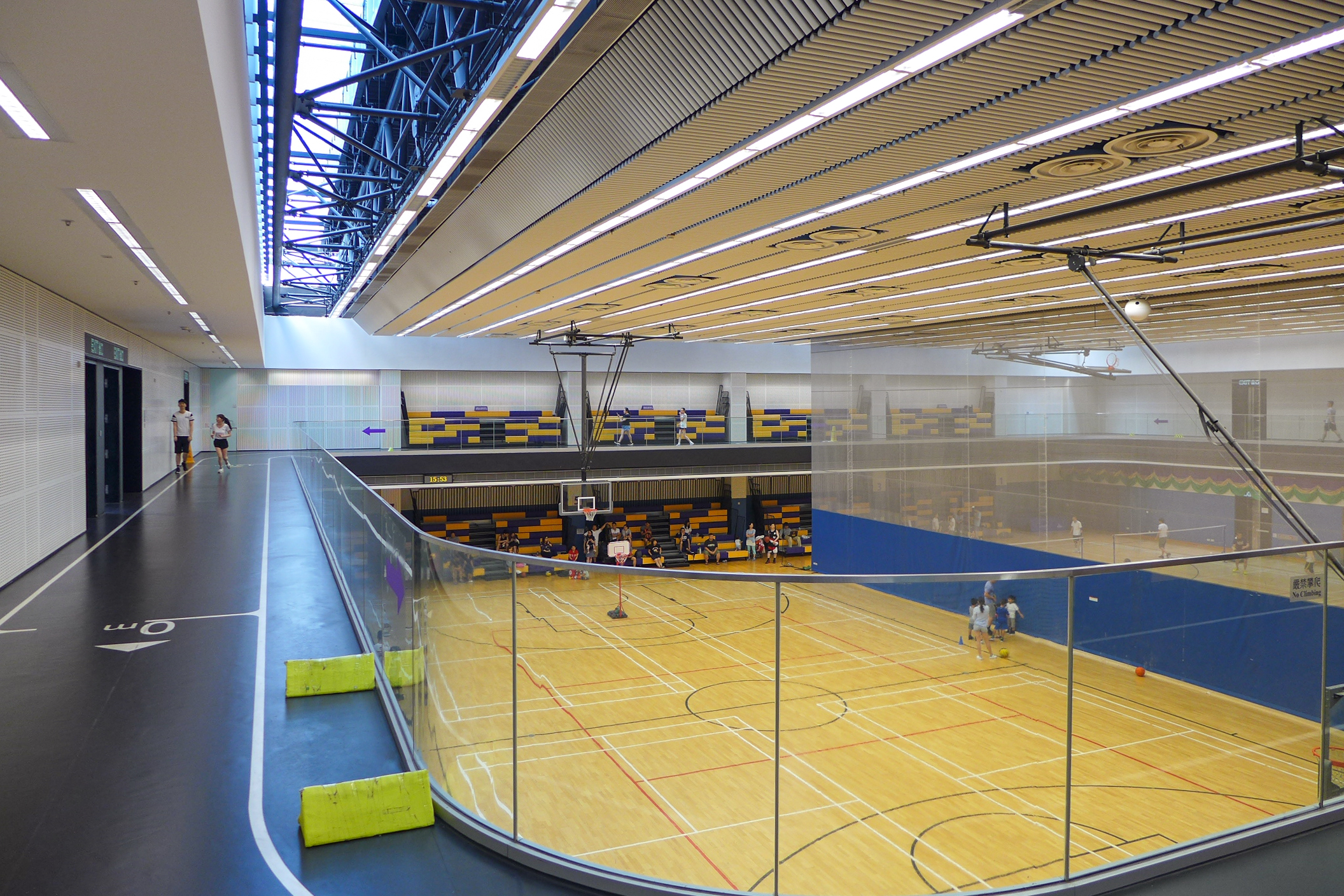 Hang Hau Sports Centre Indoor running track